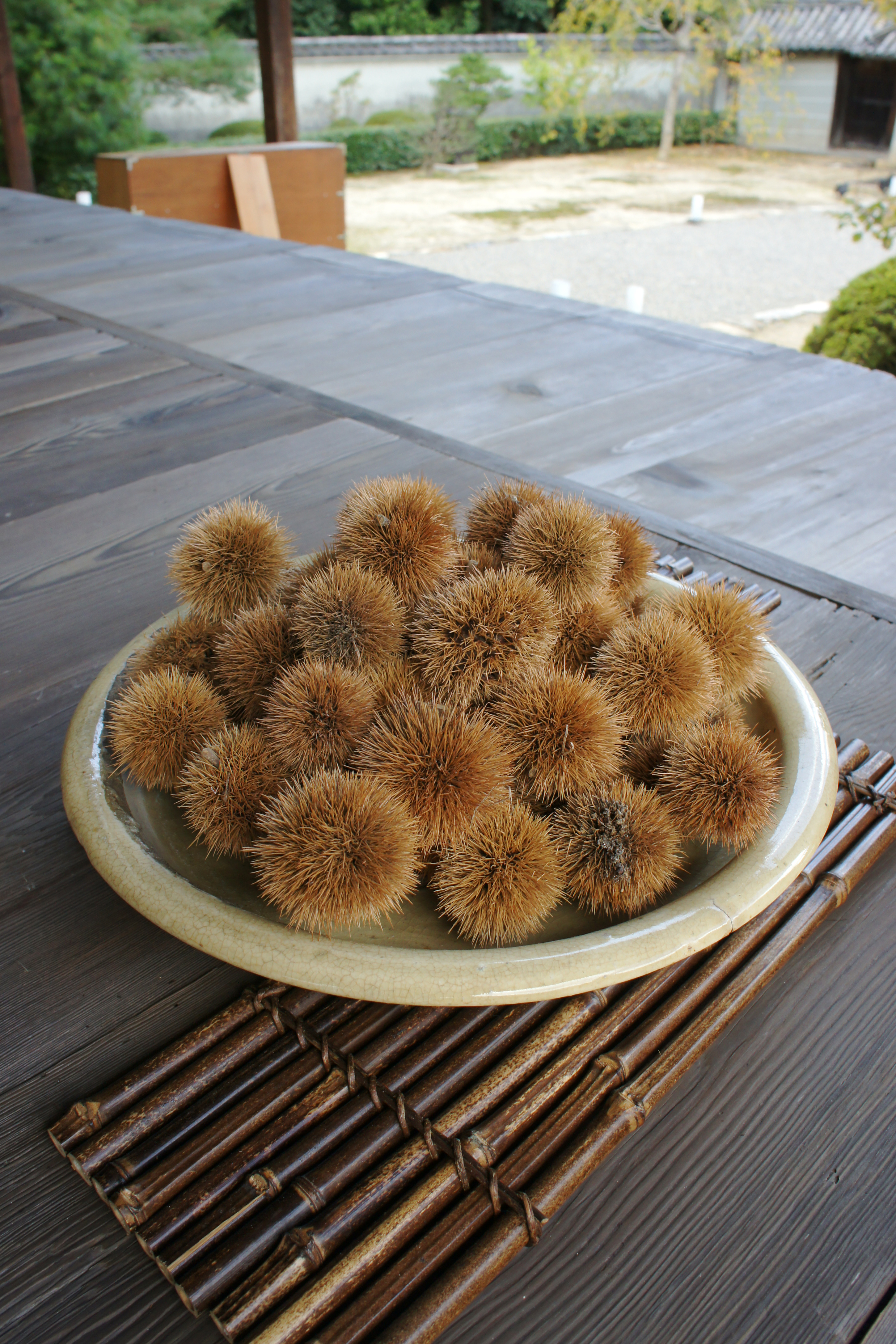 Unryu-in in Higashiyama-ku, Kyoto, Kyoto prefecture, Japan